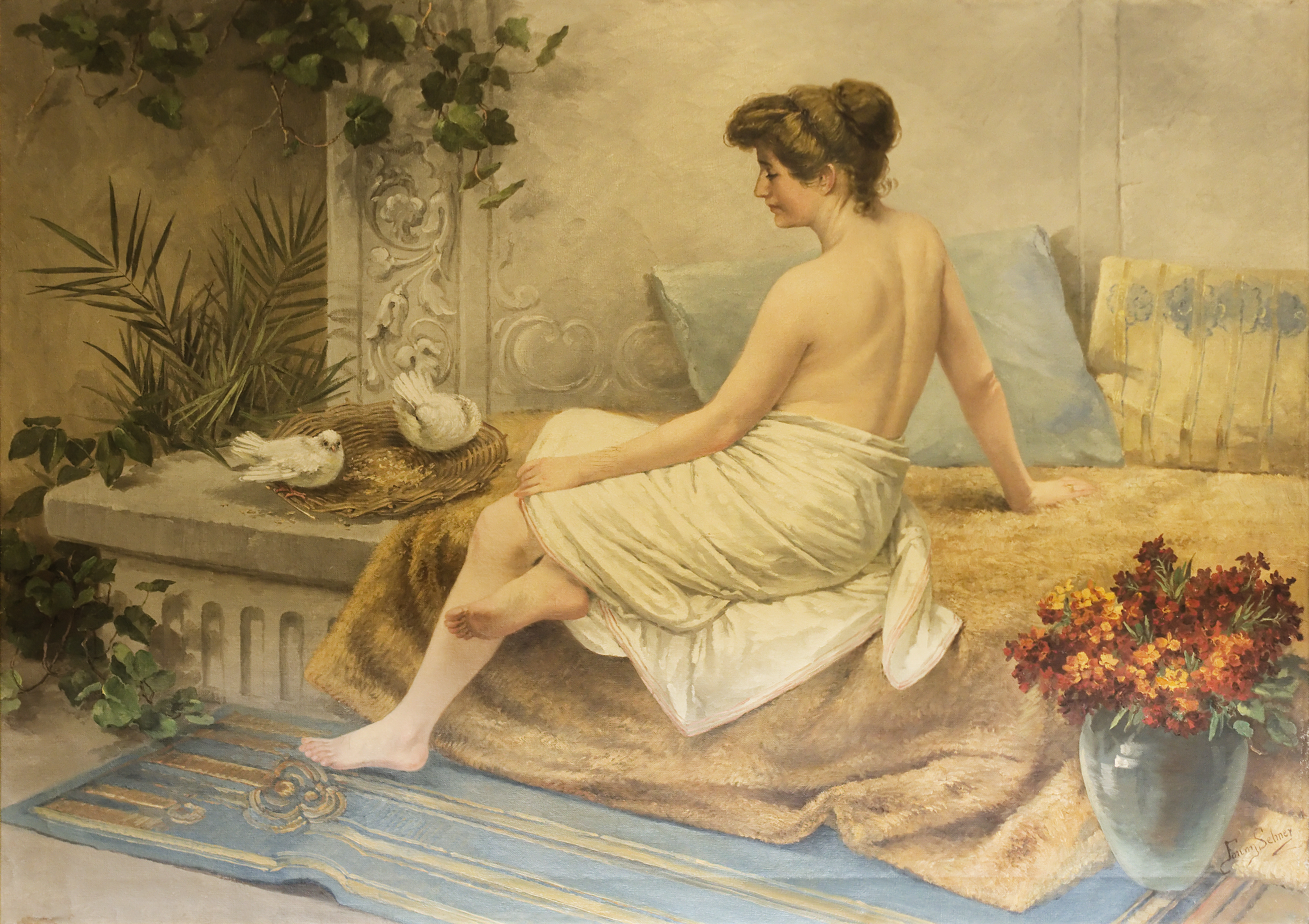 without year and title